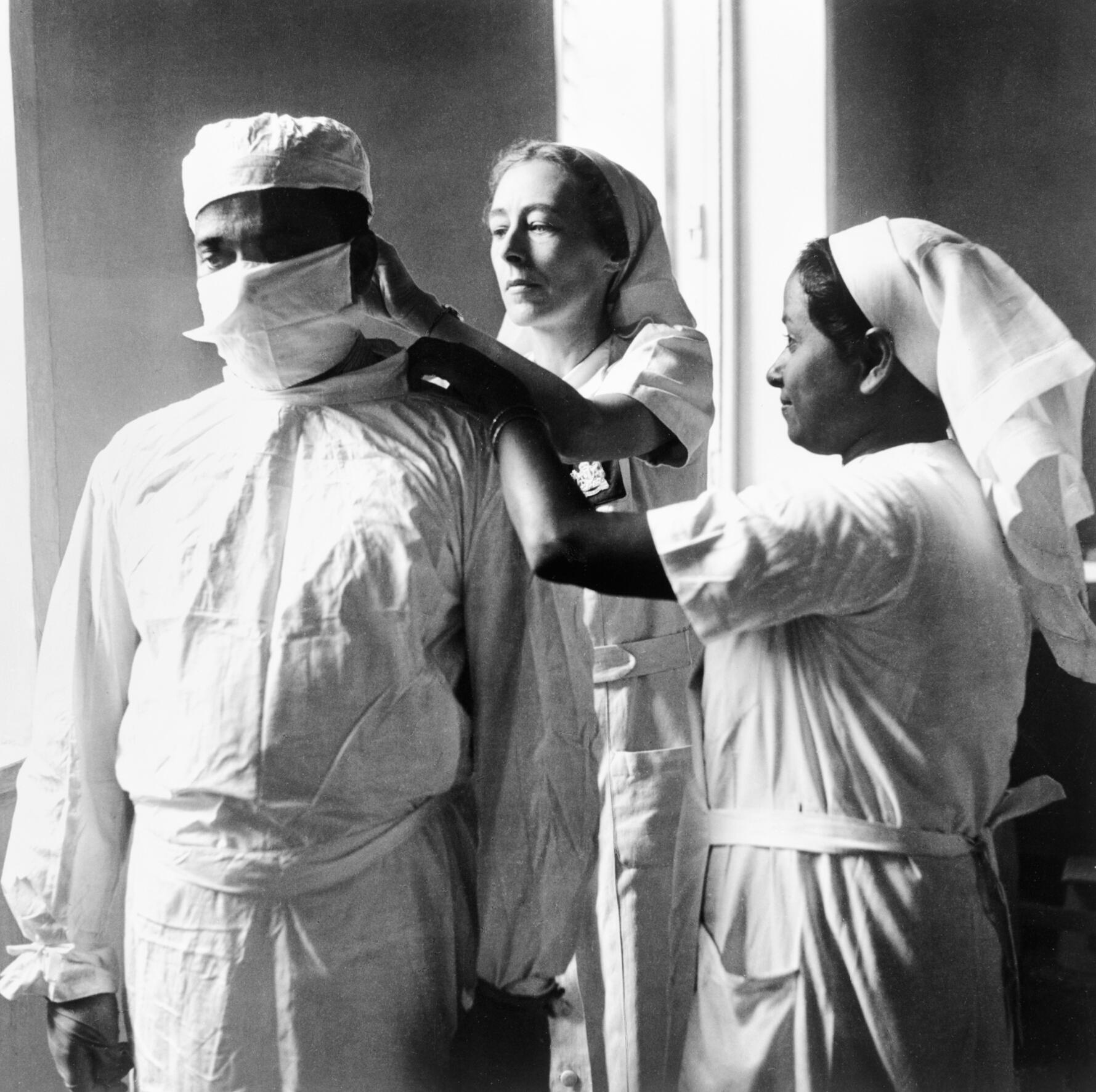 Medical Services in India, 1944 A British sister instructs an Indian nurse how to adjust a doctor's mask at a first aid post in Calcutta.